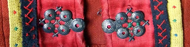 Malid (bodice ornament of Mustjala national costume, Saaremaa)